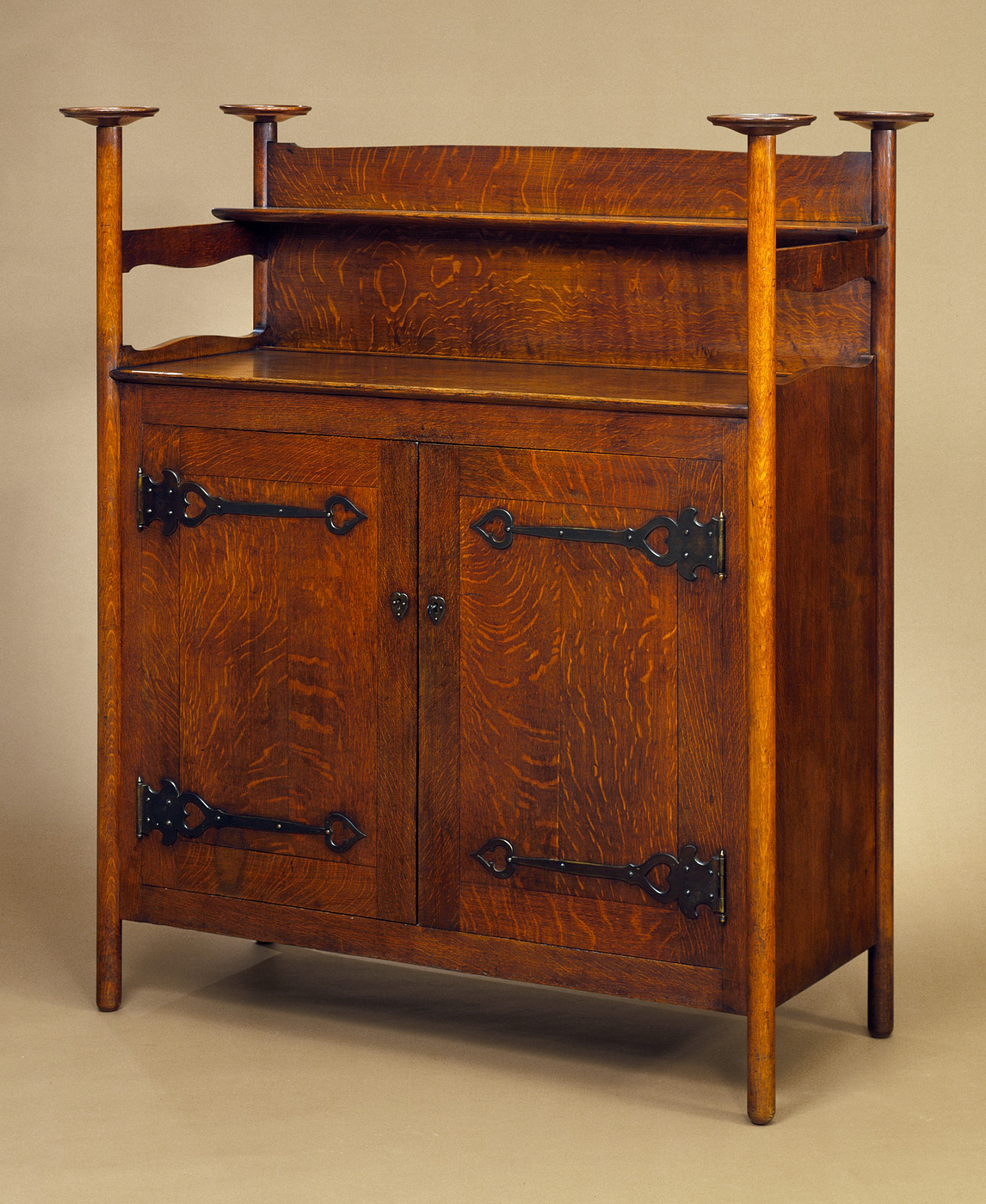 England, 1897 Furnishings; Furniture Oak and brass 59 3/8 x 54 x 24 5/8 in. (150.81 x 137.16 x 62.55 cm) Gift of Max Palevsky (AC1993.1.14) Decorative Arts and Design